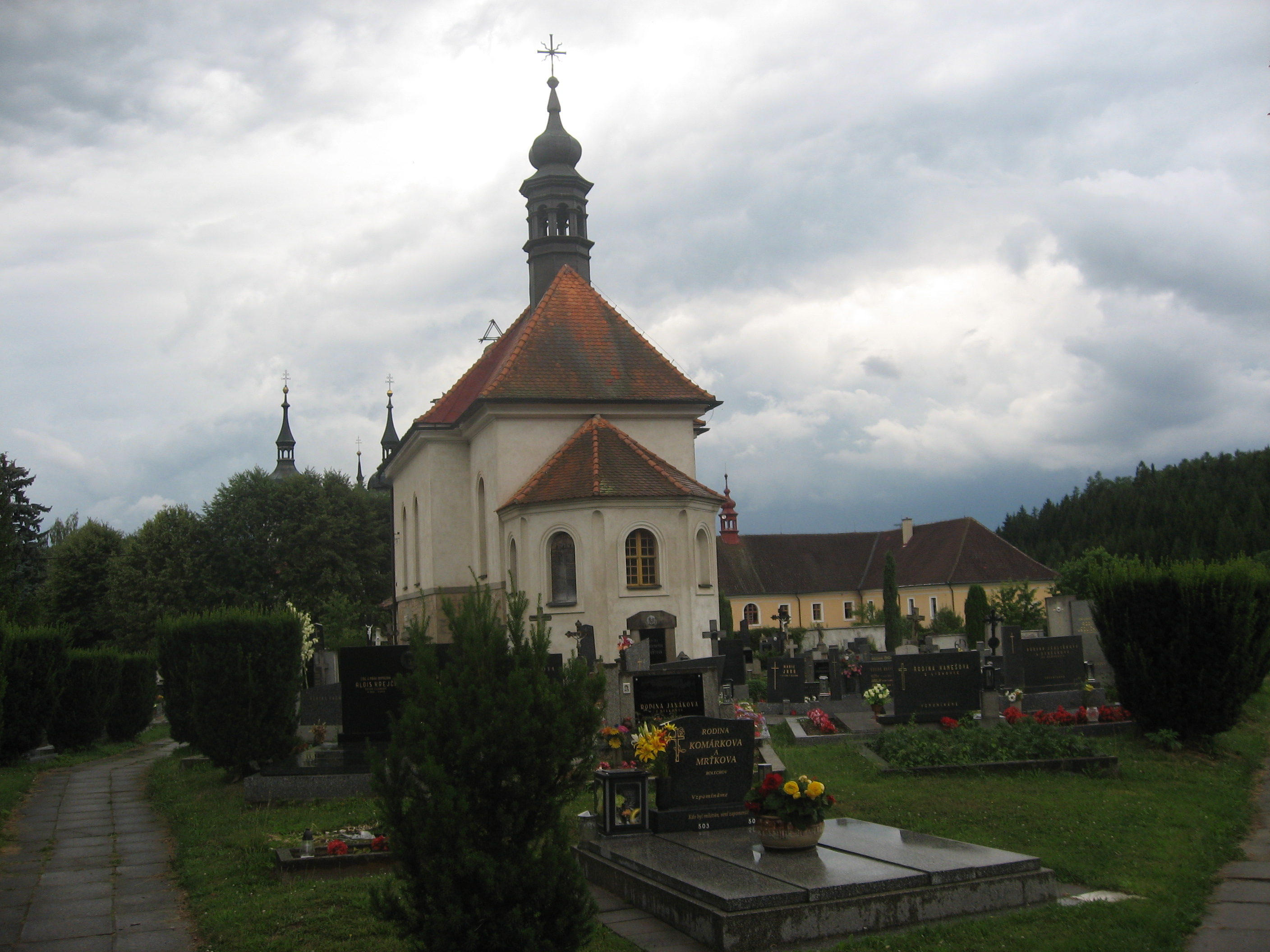 Želiv (Pelhřimov District), Churche of saints Peter and Paul